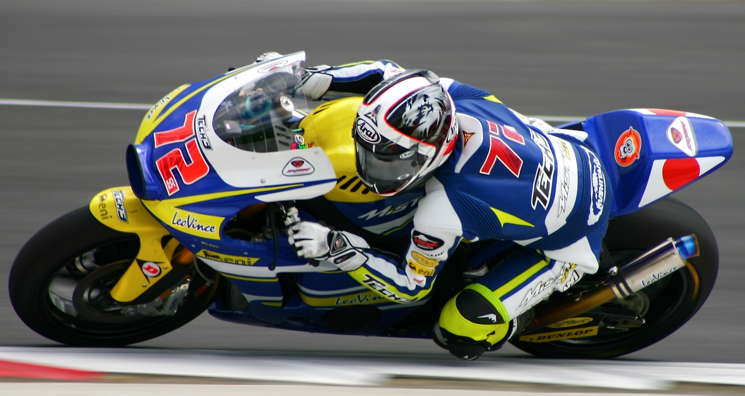 Yuki Takahashi at 2010 Silverstone